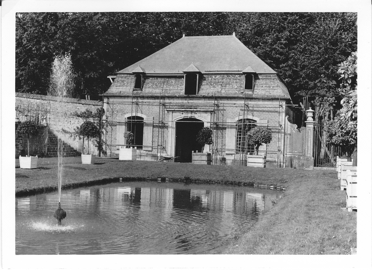 Architect Bonaert restored in 1970 the orangeries of the Castle of Freÿr